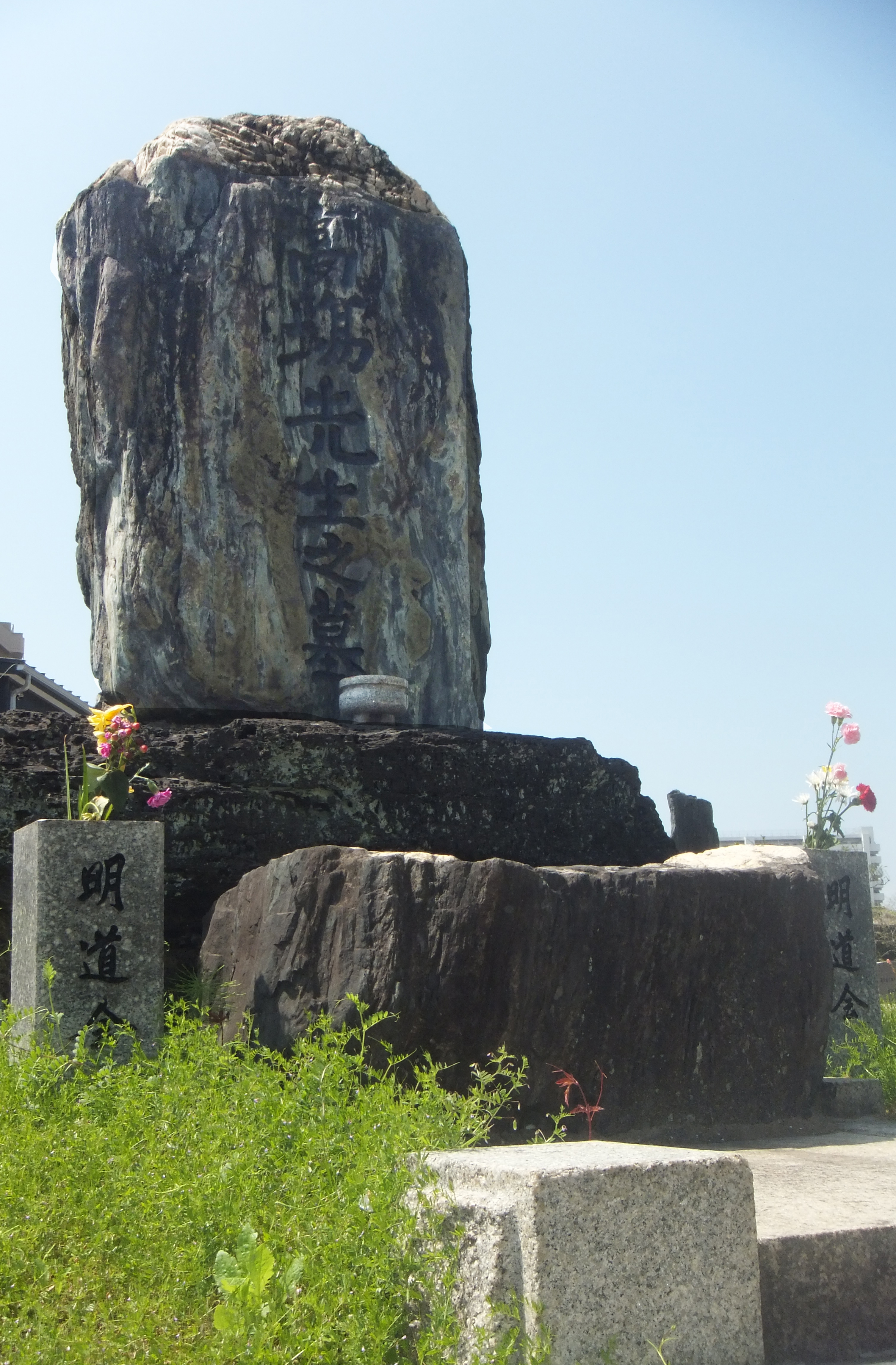 Grave of the ophthamologist and cofucian scholar Takaba Osamu (1831-1891) in the Sōfuku-Temple (Fukuoka, Japan).